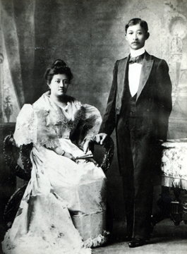 José Alejandrino with his wife. He was a Filipino general during the Philippine Revolution and the Philippine-American War. Also, he was a Senator of the Philippines.